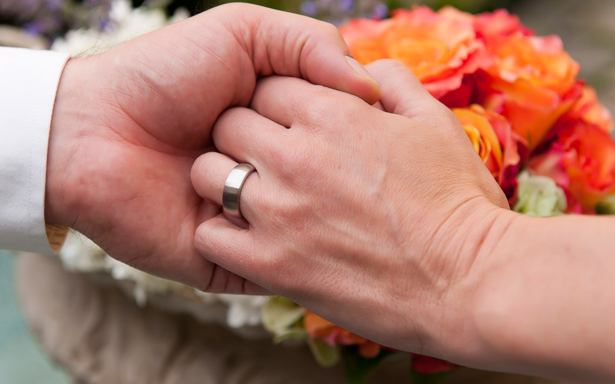 Hände mit eheringen vor einem Brautstrauss